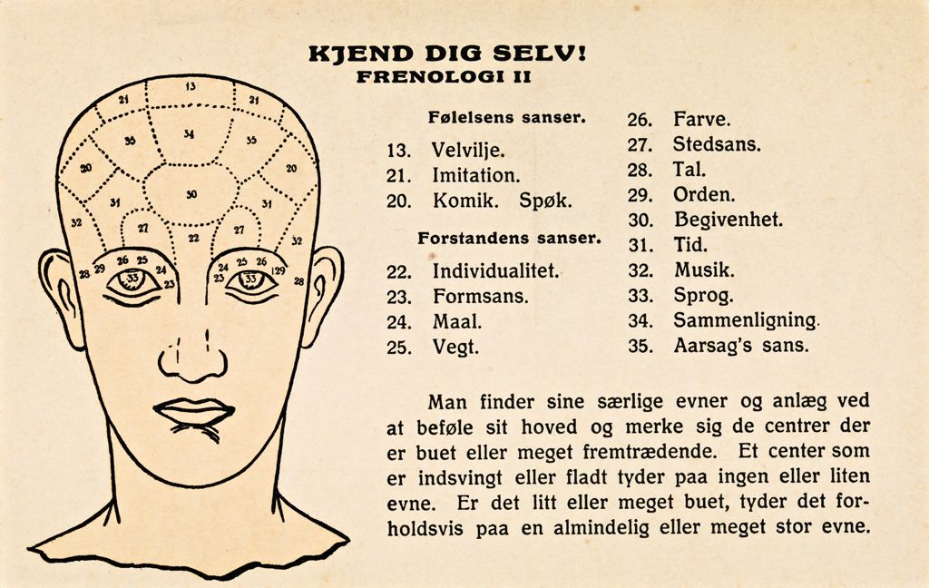 Motiv / Motif: Postkort / Postcard. Frenologi er en lære om hvordan sjelsegenskaper er plassert forskjellige steder i menneskehjernen og påvirker hjernens fysiske struktur, og hvordan dette kan avleses i den ytre formen på hodeskallen. Læren ble først fremsatt av den østerrikske fysiologen Franz Joseph Gall (1758–1828). Kunstner / Artist: ukjent / unknown Utgiver / Publisher: ukjent / unknown Eier / Owner Institution: Nasjonalbiblioteket / National Library of Norway Lenke / Link: Bildesignatur / Image Number: blds_03787